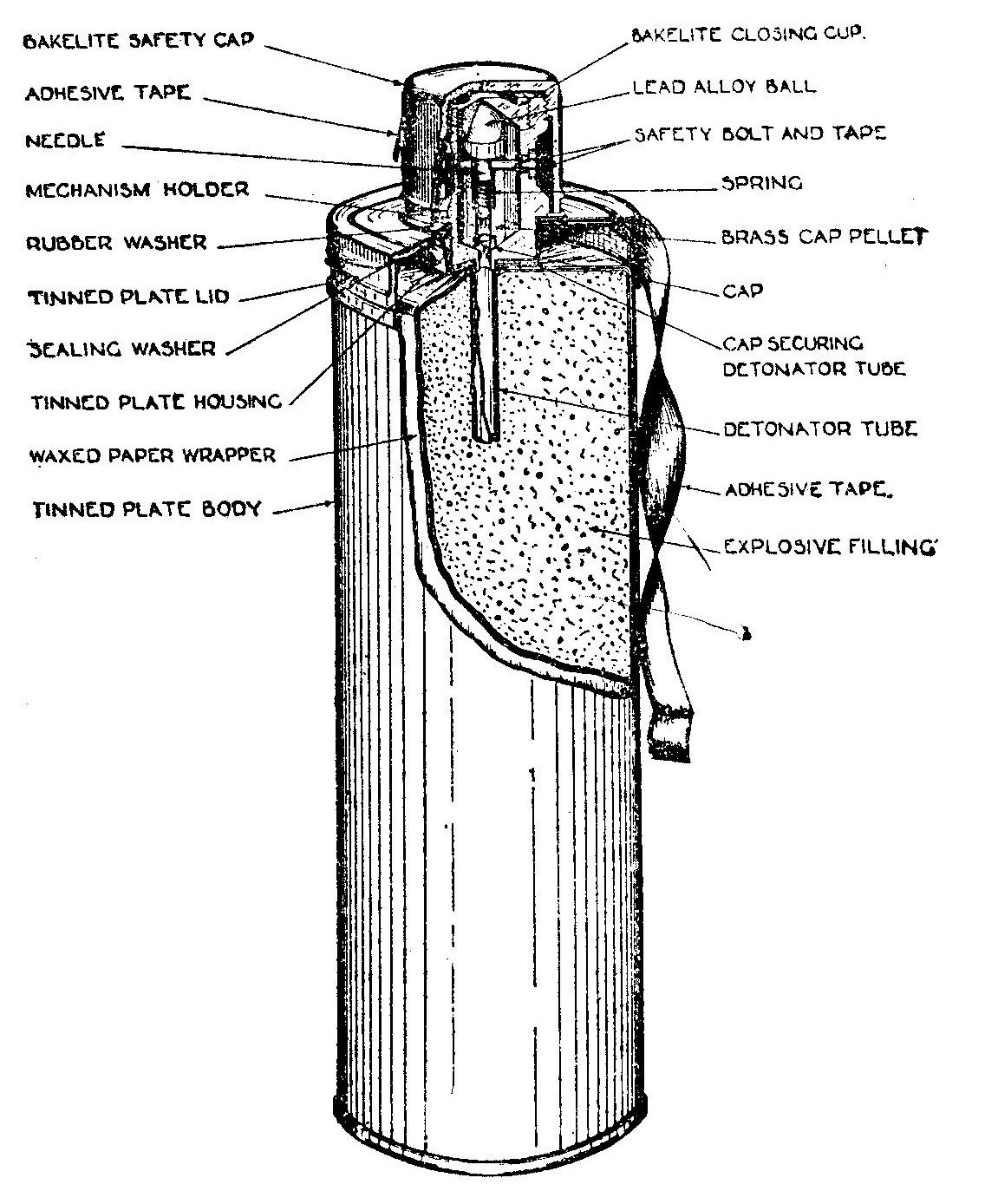 Hand Percussion Grenade (anti-tank No 73 Mark I) Original caption: The grenade is shown undetonated. When viewed from the top of the mechanism the tape attached to the safety bold is wound in a clockwise direction.